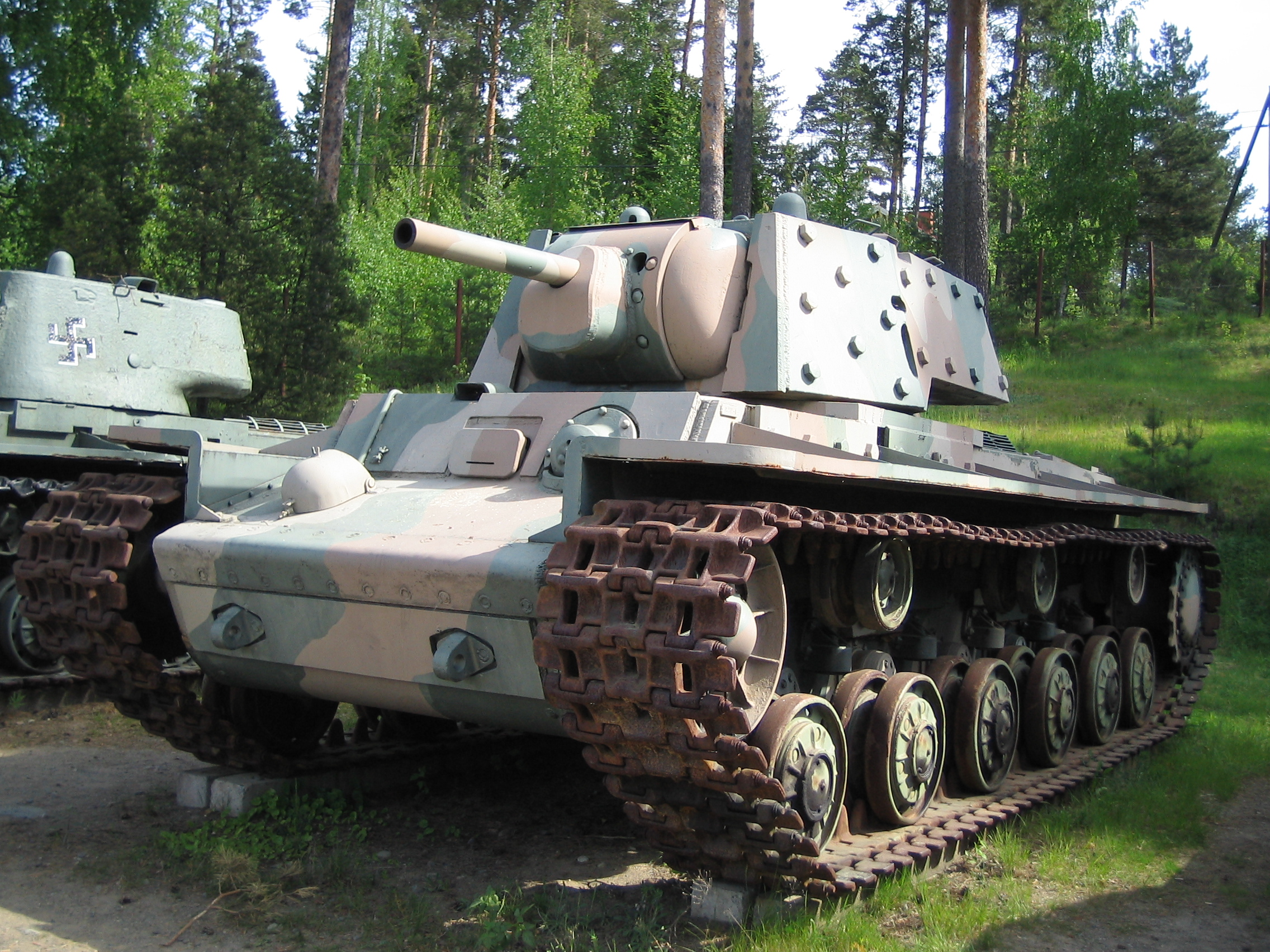 KV-1E m 1941 in Parola Tank museum